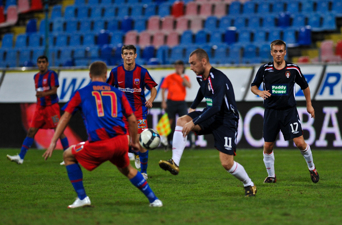 Steaua Bucharest V St Patrick's Athleitc.